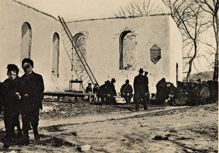 Tittel / Title: Borgund Kirkes Ruiner Motiv / Motif: Postkort. Den store bybrannen i Ålesund fant sted natt til 23. januar 1904. Dato / Date: 1904 Fotograf / Photographer: ukjent Utgiver / Publisher: J. Aarflot Sted / Place: Møre og Romsdal, Ålesund Eier / Owner Institution: Nasjonalbiblioteket / National Library of Norway Lenke / Link: Bildesignatur / Image Number: blds_03792